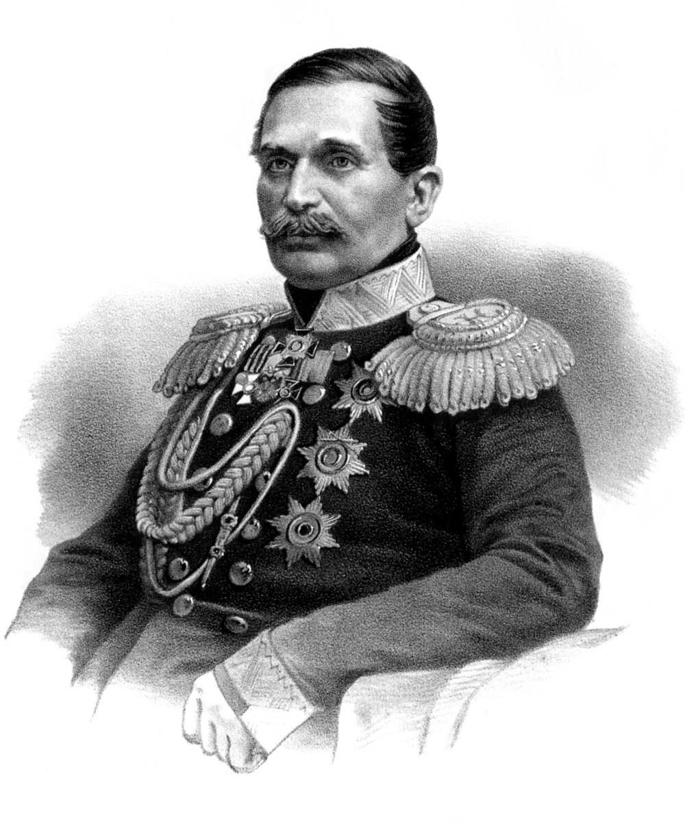 Dolgorukov, Vasily Andreyevich (1803 -1868) russian General.